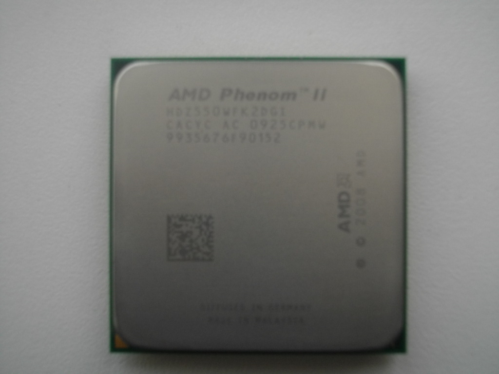 Phenom II X2 550 processor from AMD.